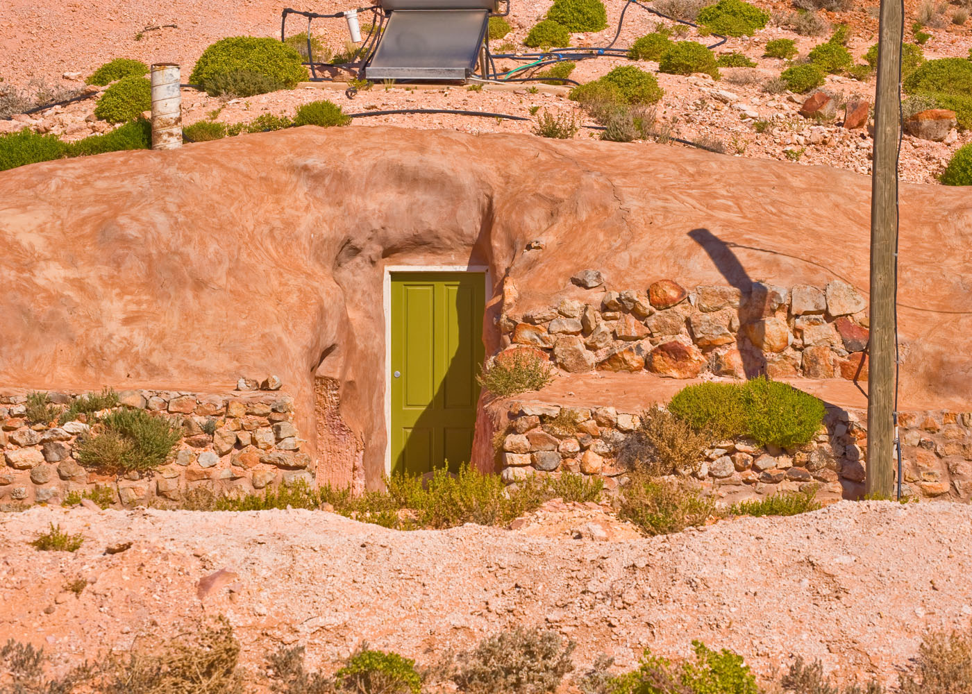 Underground house (Coober Pedy).